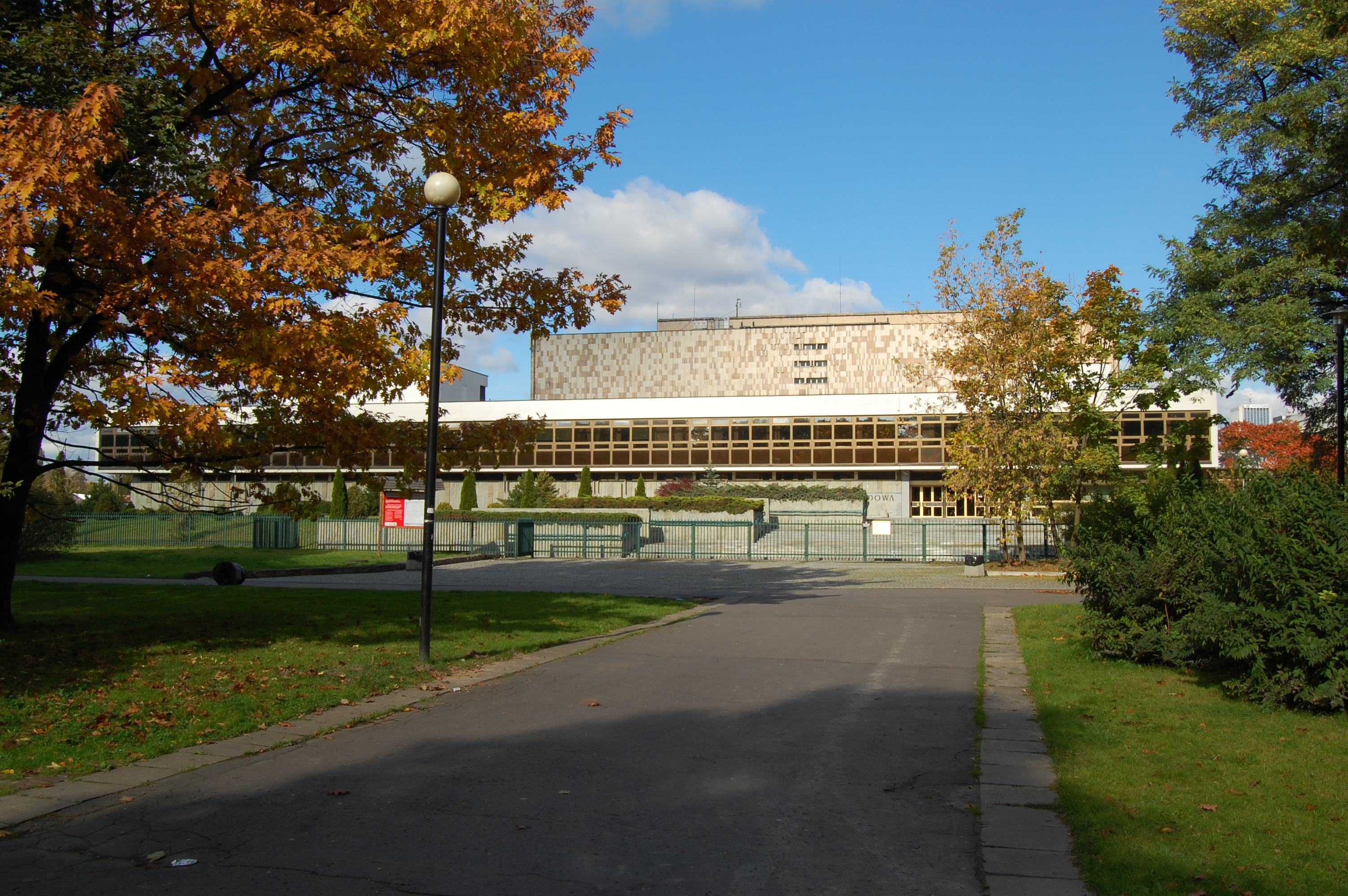 Polish National Library Building, Warsaw, Poland.